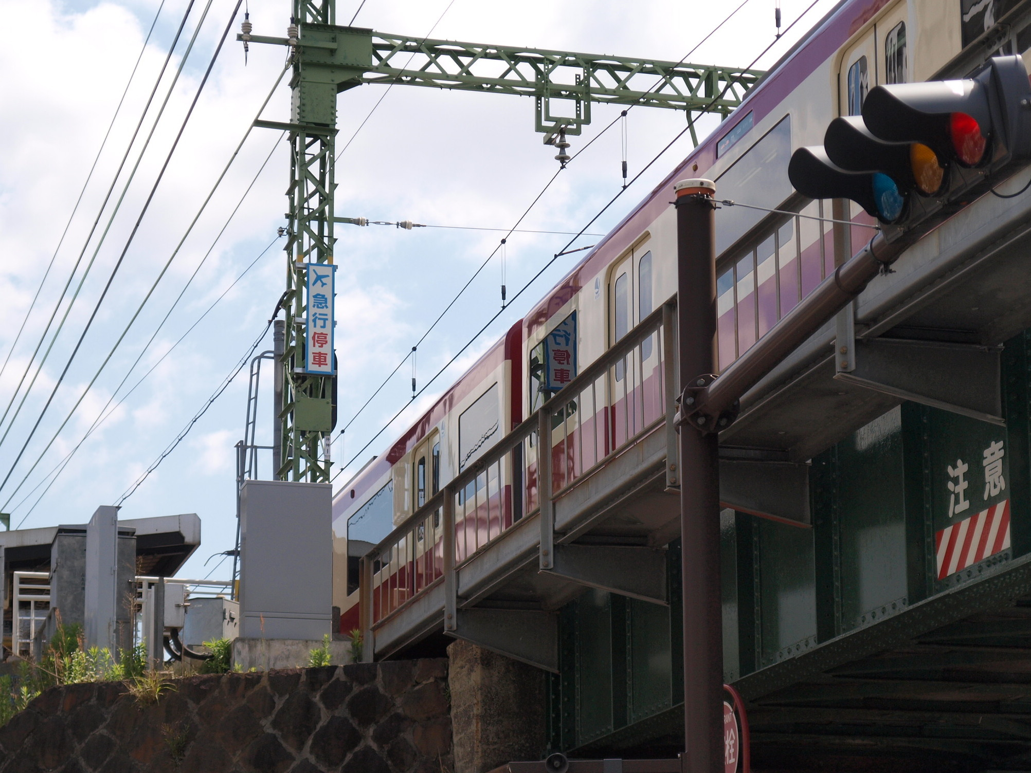 Indicator to warn train drivers on airport expresses to stop at the station, Nakakido